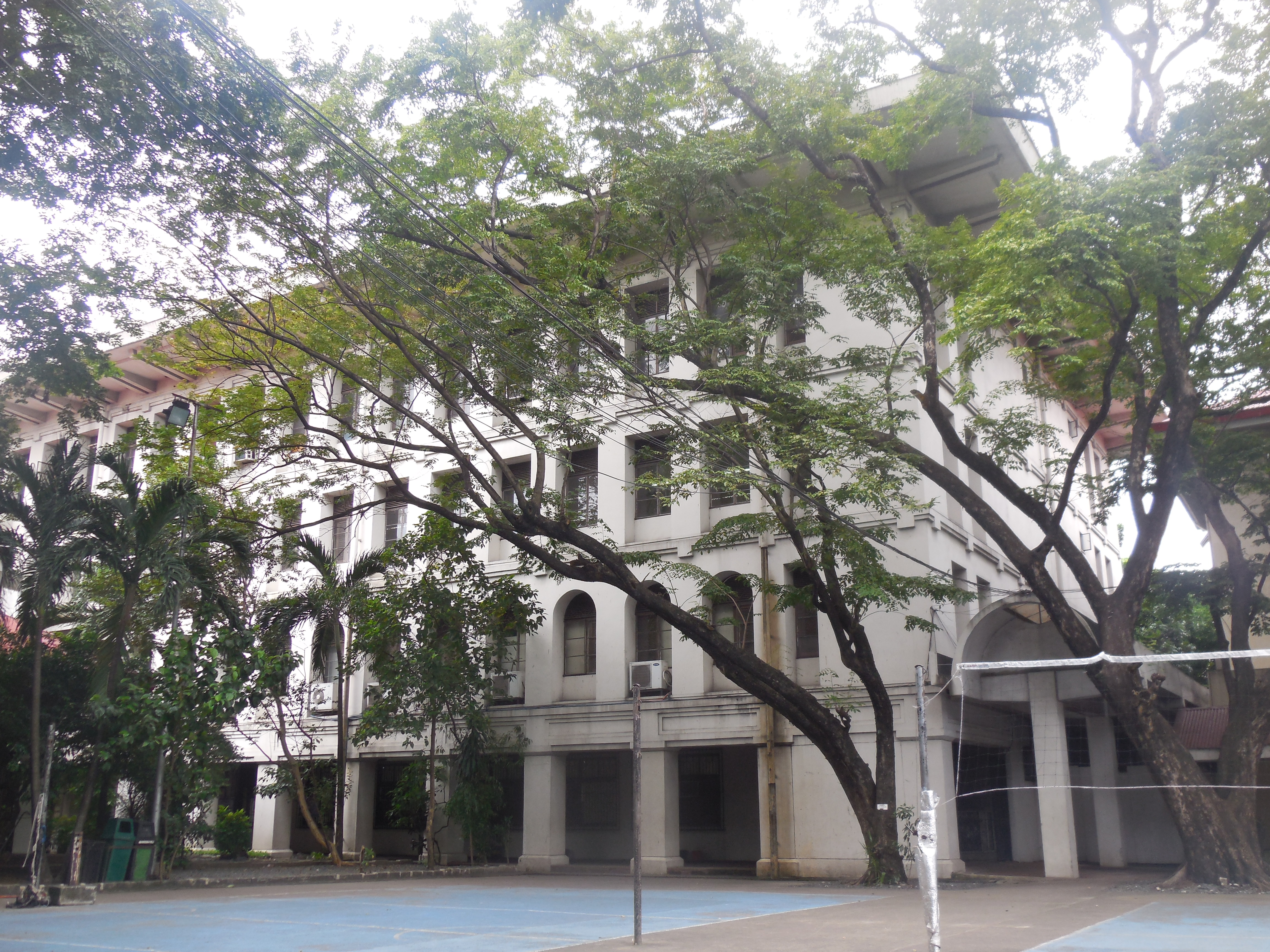 The Bonifacio Sibayan Hall of the Philippine Normal University in Taft Avenue cor. Ayala Boulevard, Manila. This building houses the university library, archives as well as the auditorium.